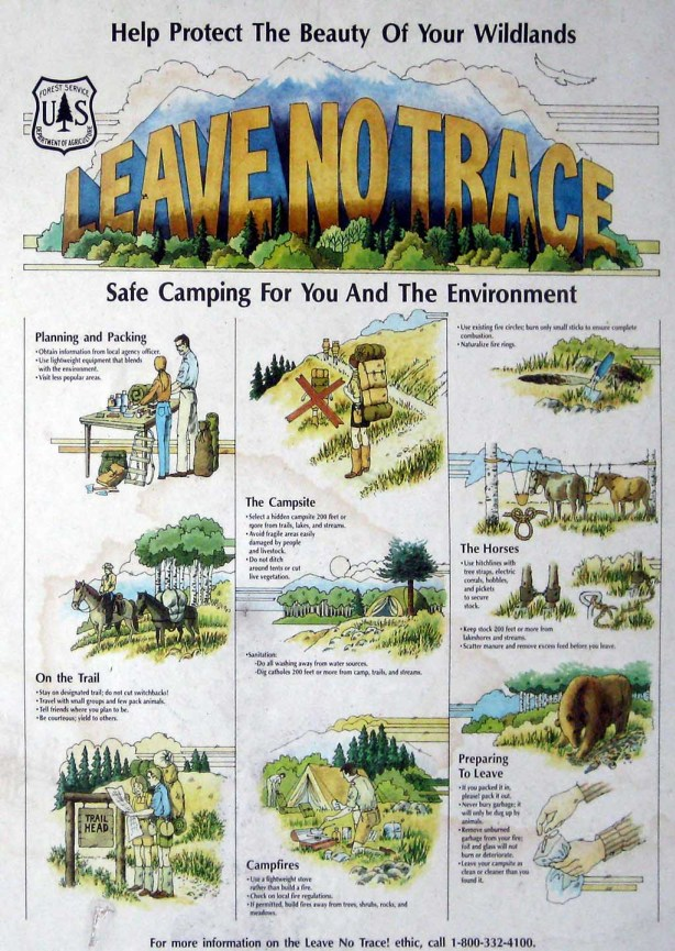 Leave No Trace poster